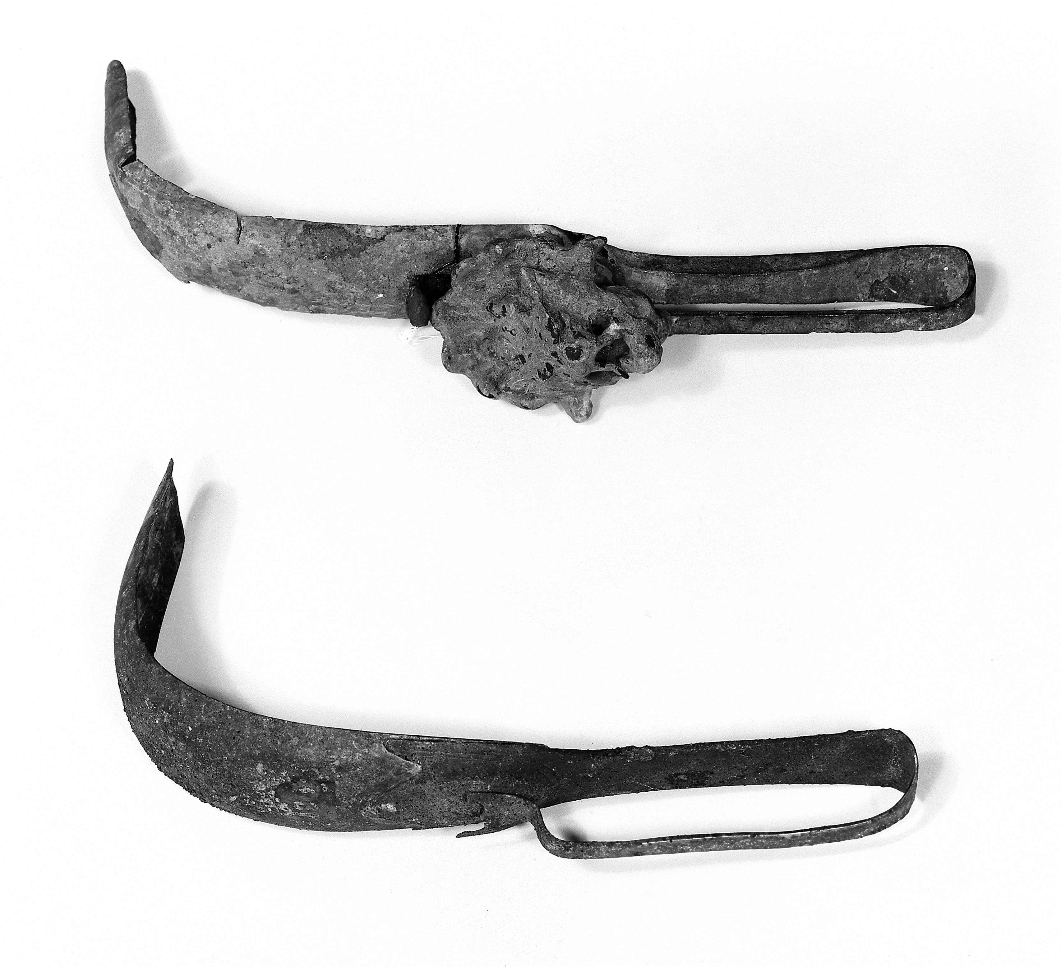 Roman strigils of Bronze One on the left has a name stamped on the handle, perhaps the name of the owner. The one in the right was excavated in Rome. It is decorated with a grotesque animal head. In the Wellcome Historical Medical Museum Wellcome Images Keywords: ancient medicine: greek and roman